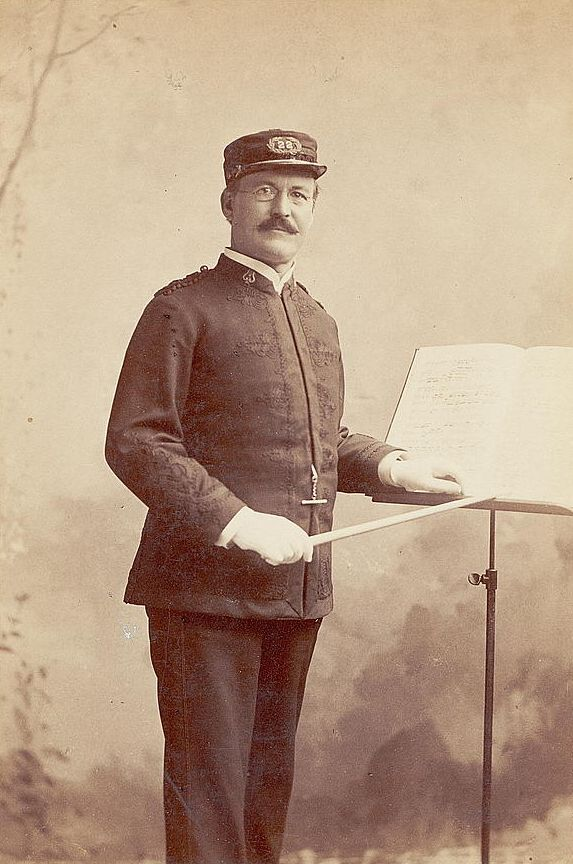 Patrick S. Gilmore, three-quarter length portrait, standing, facing slightly right, wearing music conductor uniform